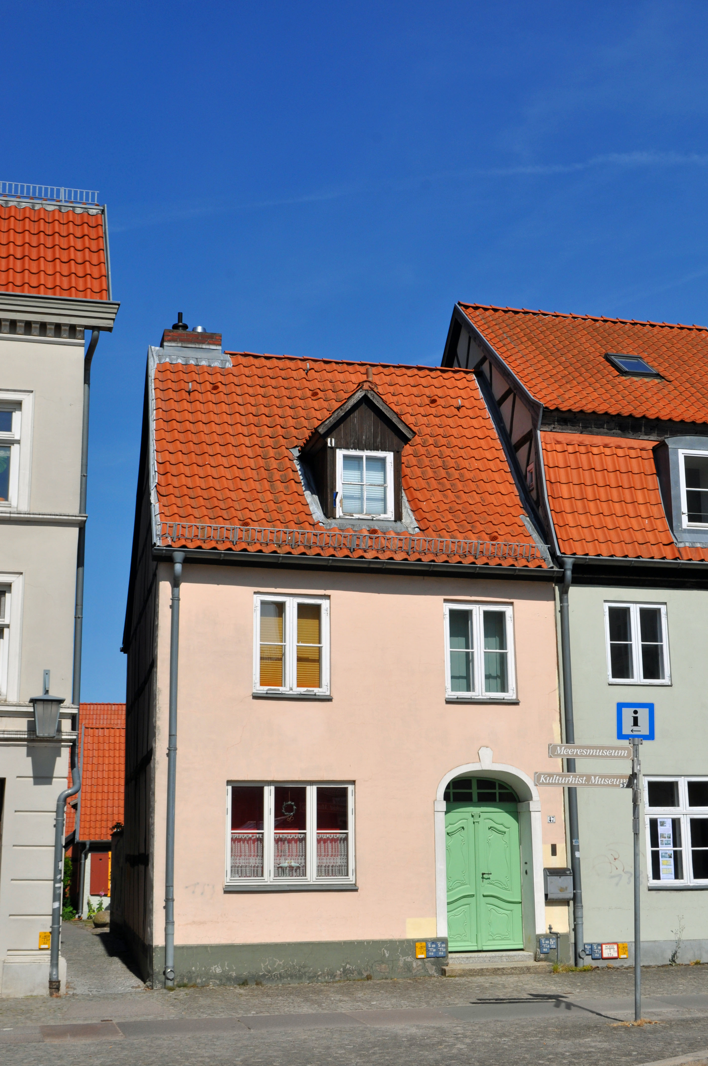 Stralsund, Wasserstraße 47 This is a photograph of an architectural monument.